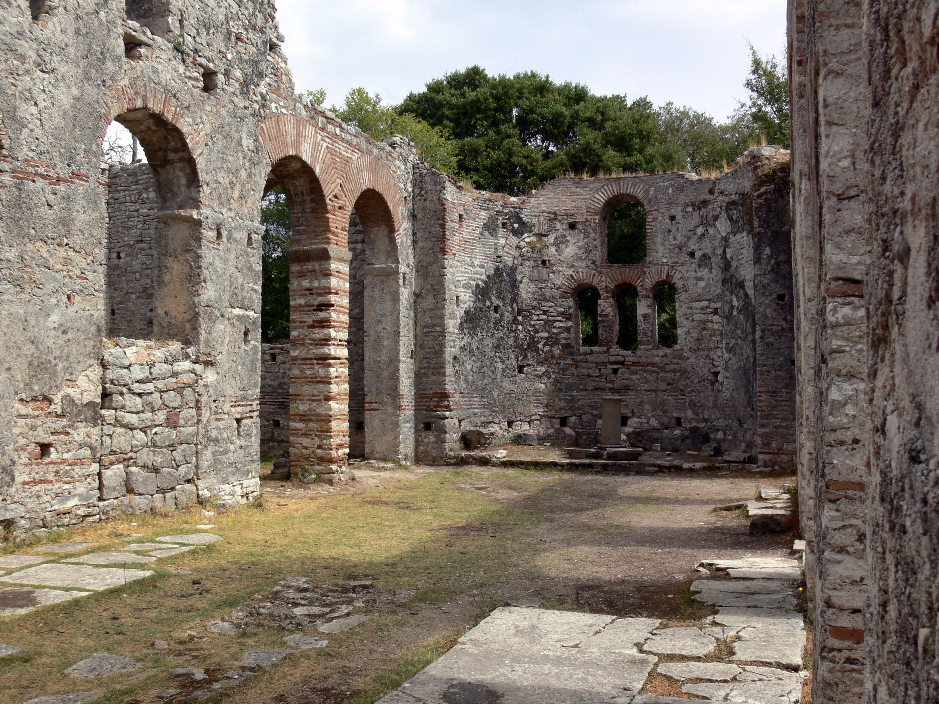 Ancient christian basilica in Butrint